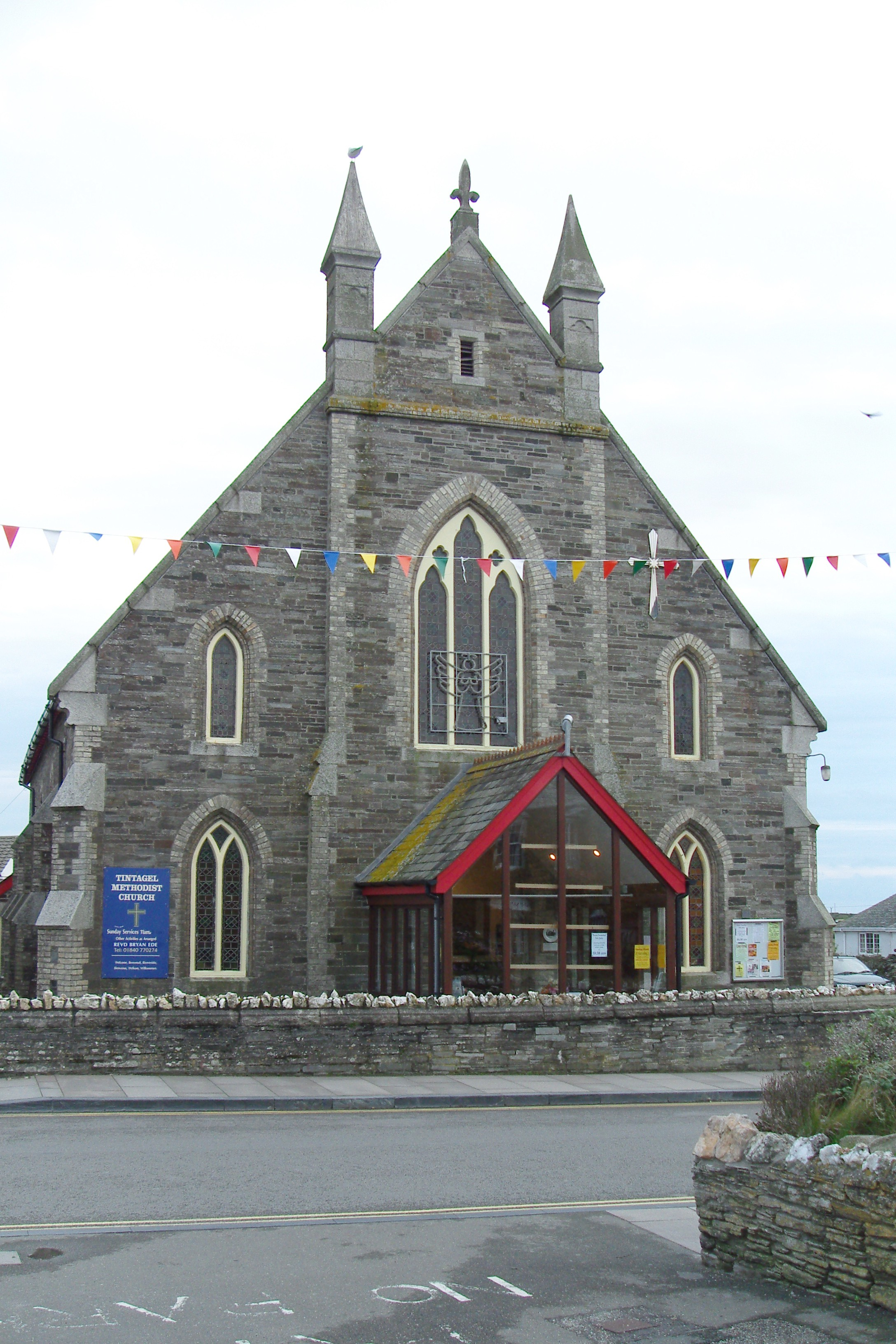 Tintagel Methodist Church